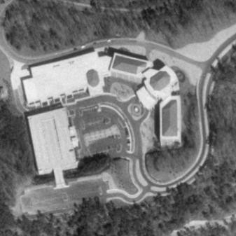 Aerial view of the former headquarters of HealthSouth Corporation in Birmingham, Alabama